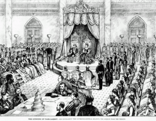 The Opening of Parliament. His Excellency the Governor-General Reading the Speech From the Throne